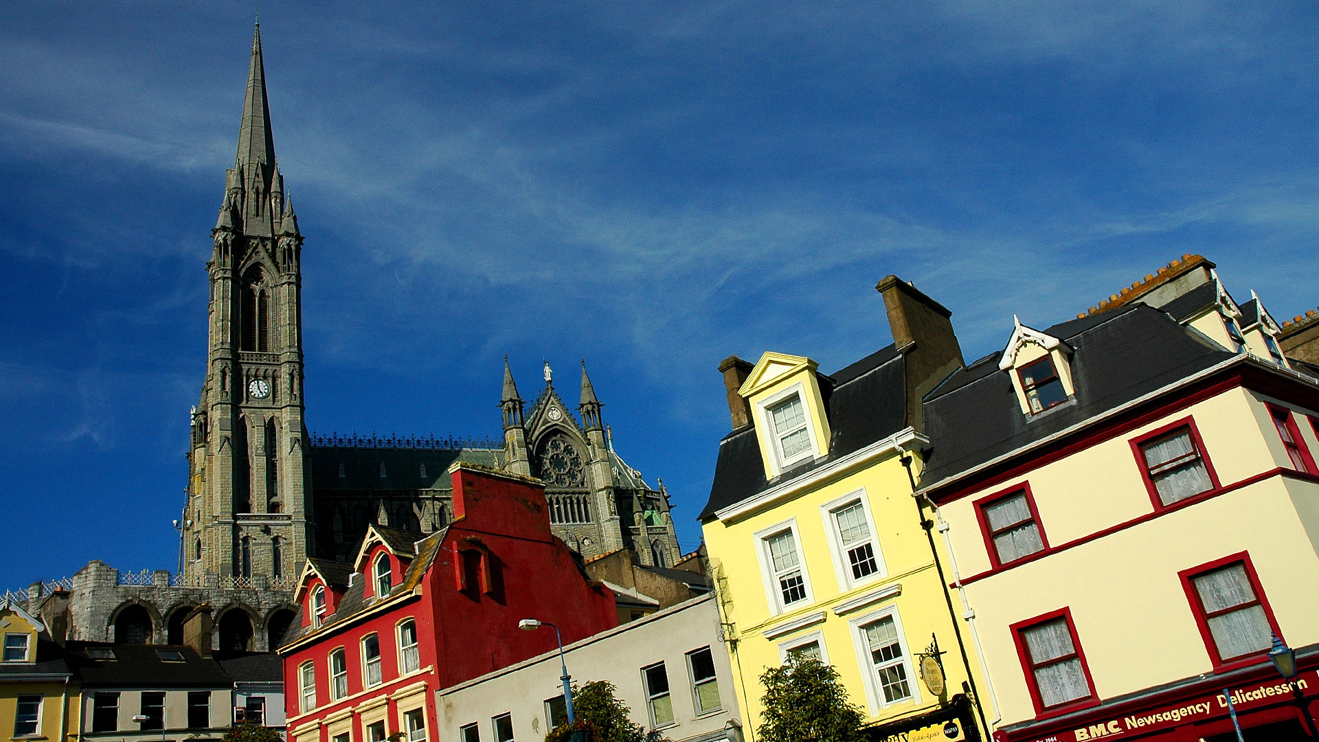 St. Colman Cathedral, Cobh, Ireland